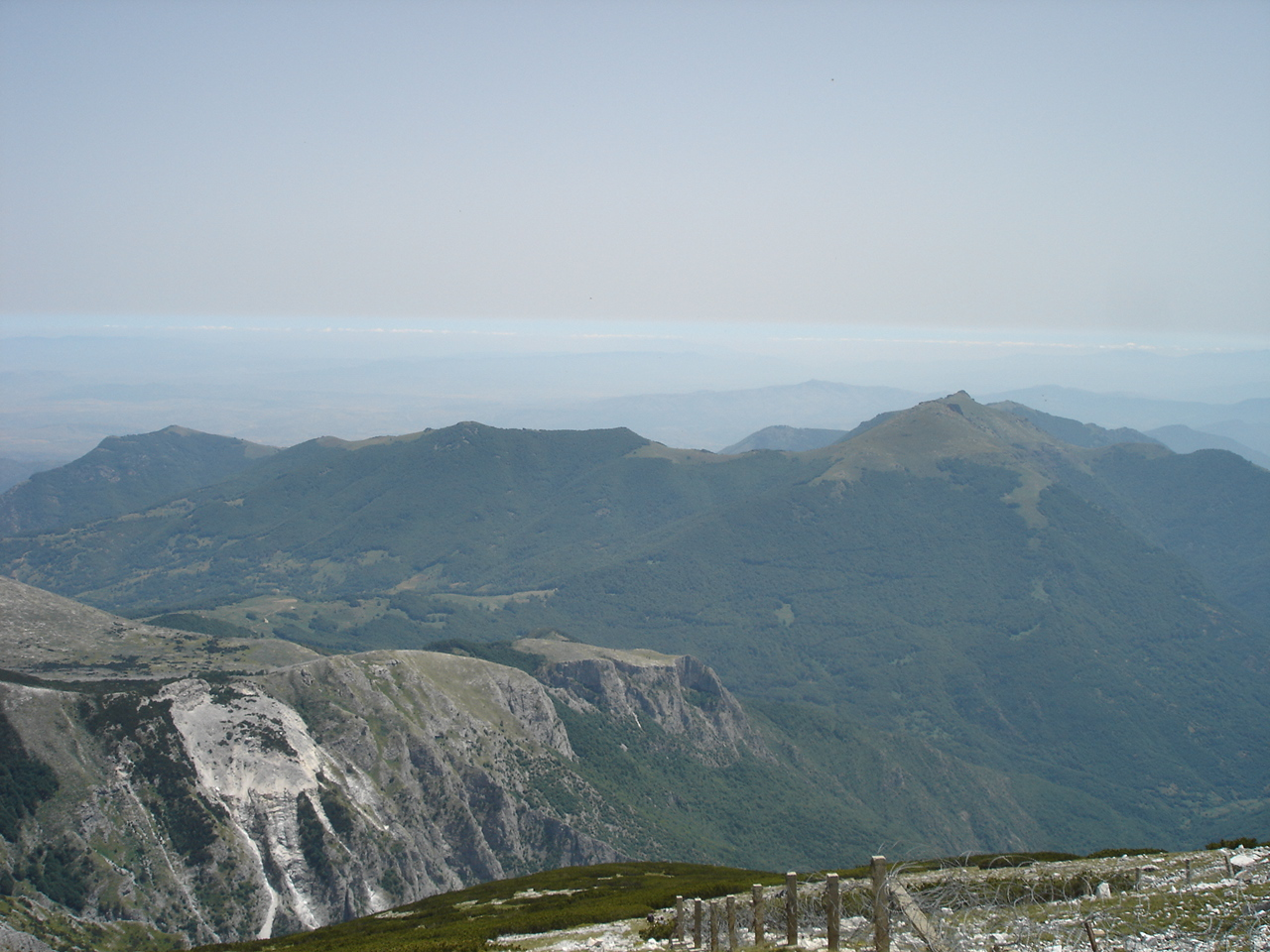 Goleshnica mountain viewed from Solunska Glava peak, Macedonia